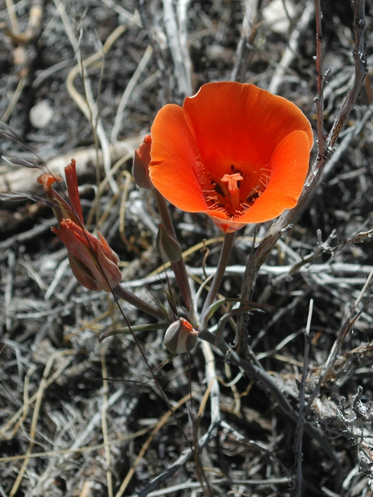 Calochortus kennedyi; Mariposa Lily. I found it in the foothills of the Angeles National Forest, SouthEast of Llano, CA.